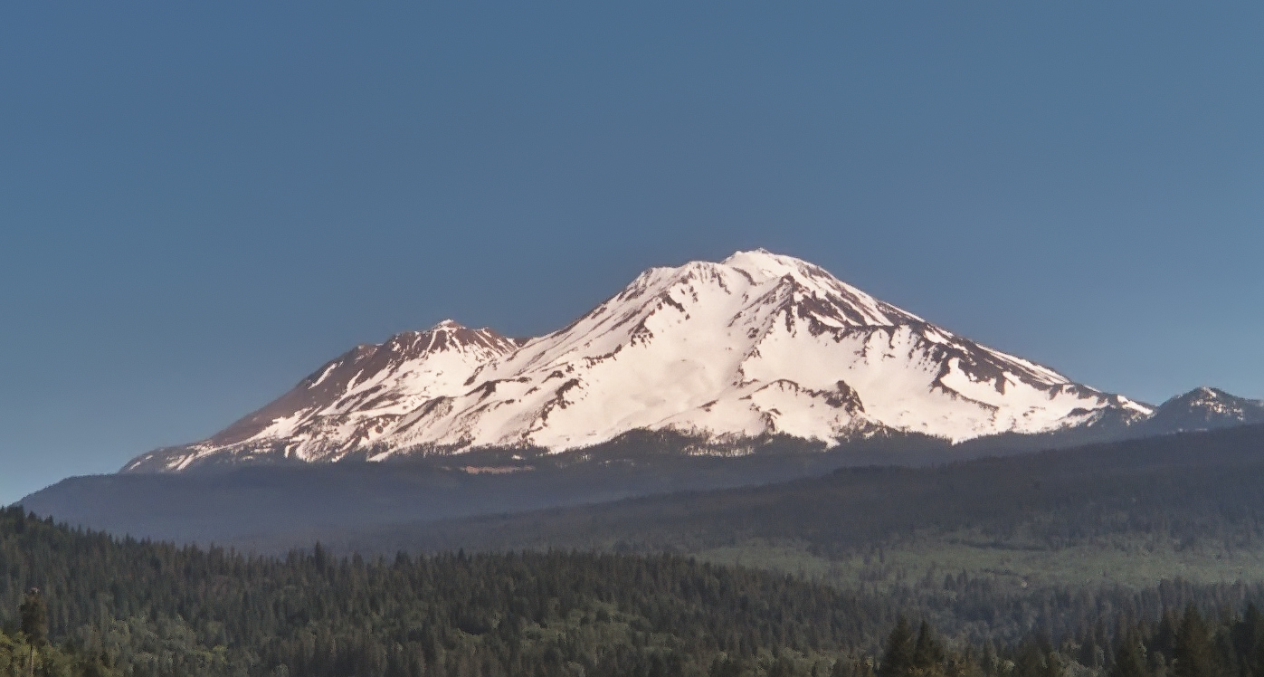 Mt. Shasta California, from the south near Dunsmuir, California.